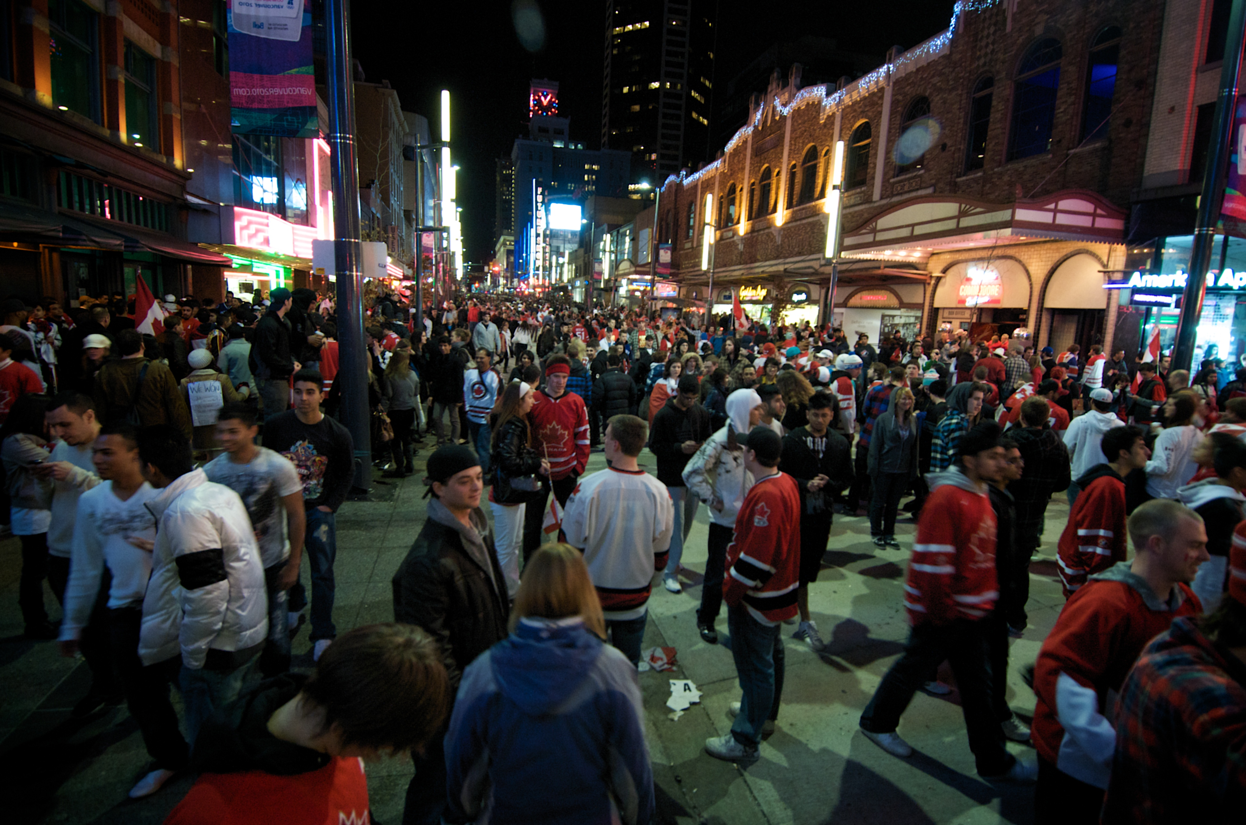 The final day of the Vancouver 2010 Winter Olympics. We take Gold in Men's Hockey and then the Closing Ceremonies.